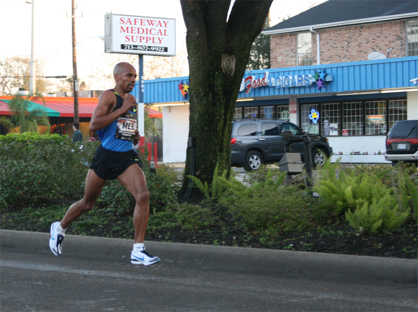 Meb Keflezighi wins 2009 Houston Half Marathon